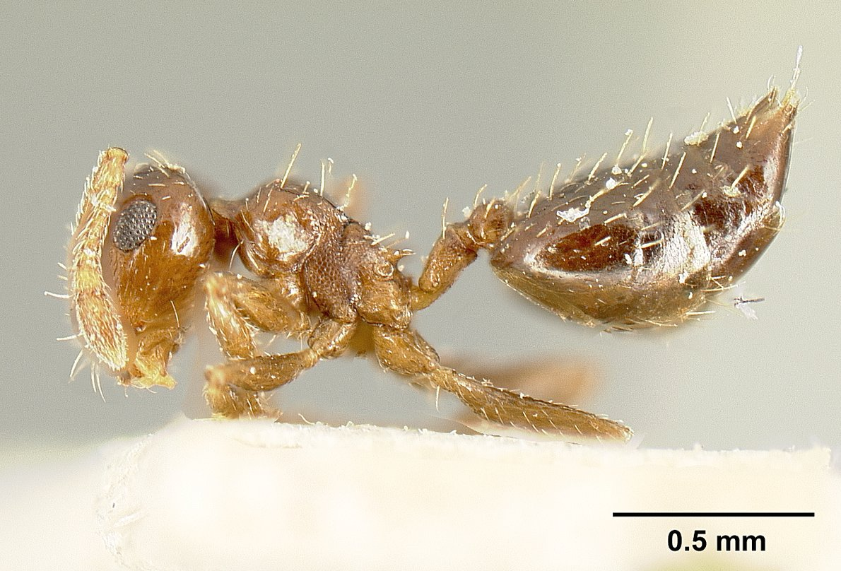 Profile view of ant Crematogaster abstinens specimen casent0603551.